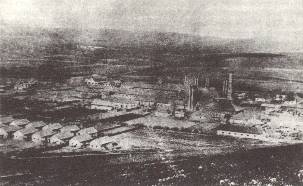 Ózd Metallurgical Works, 1870